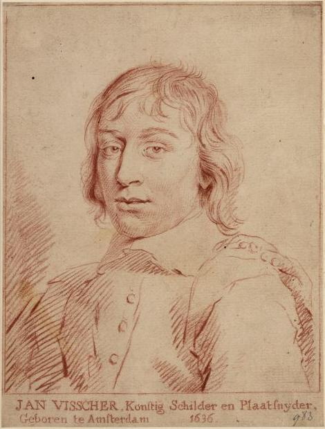 Jan de Visscher b1636